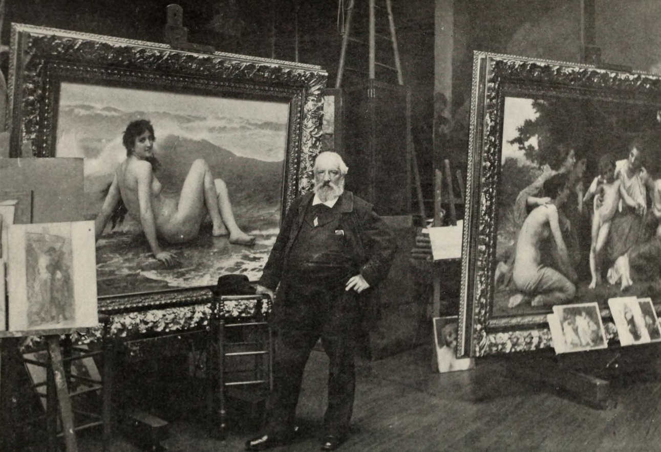 William-Adolphe Bouguereau